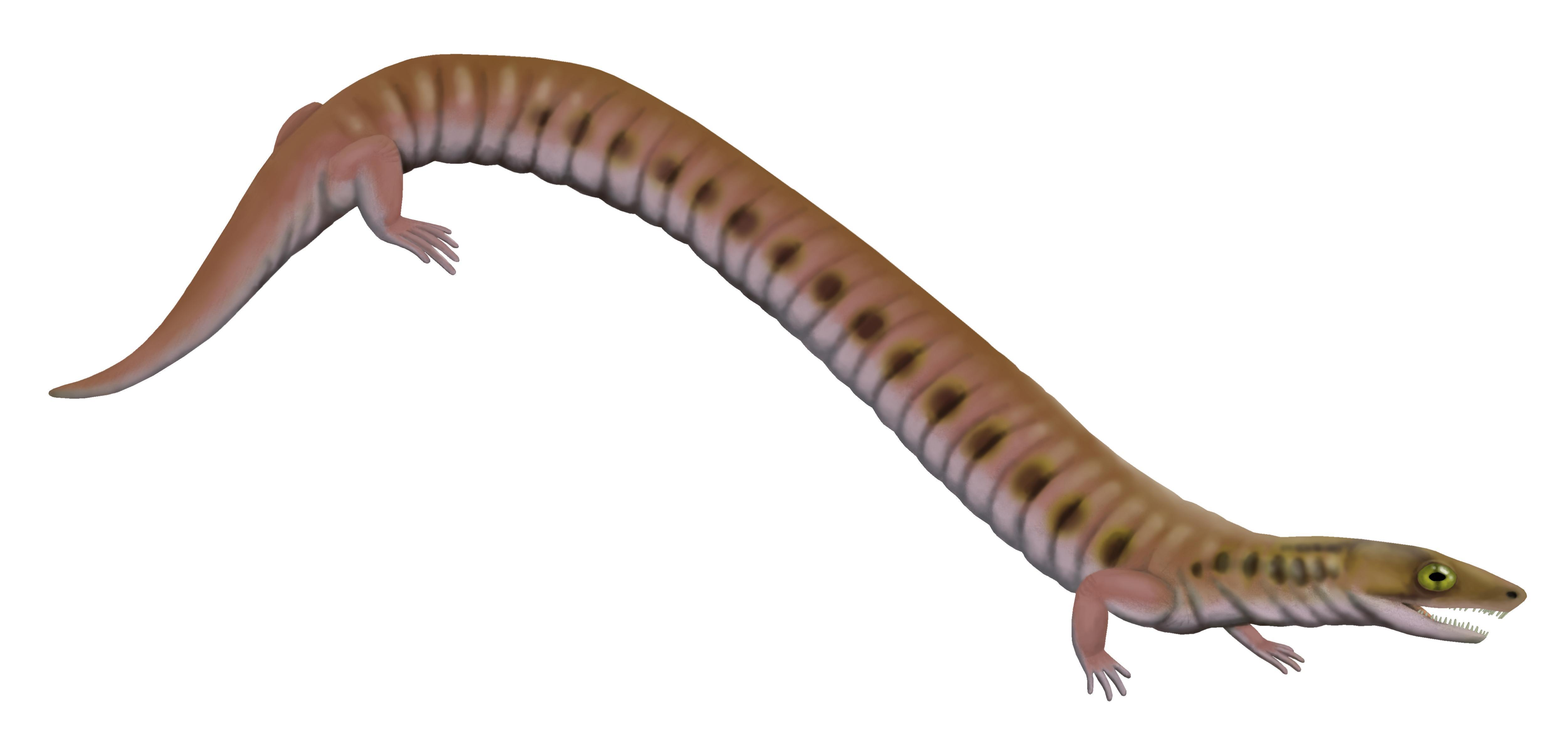 Life restoration of Rhynchonkos stovalli. Based on figures 64 and 72 of The Order Microsauria by Robert L. Carroll and Pamela Gaskill.